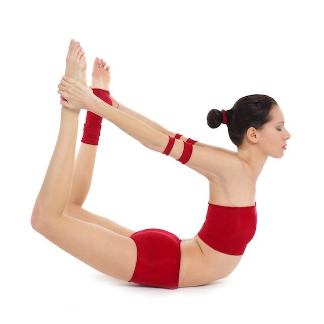 Dhanurasana by Nina Mel, Yoga Teacher